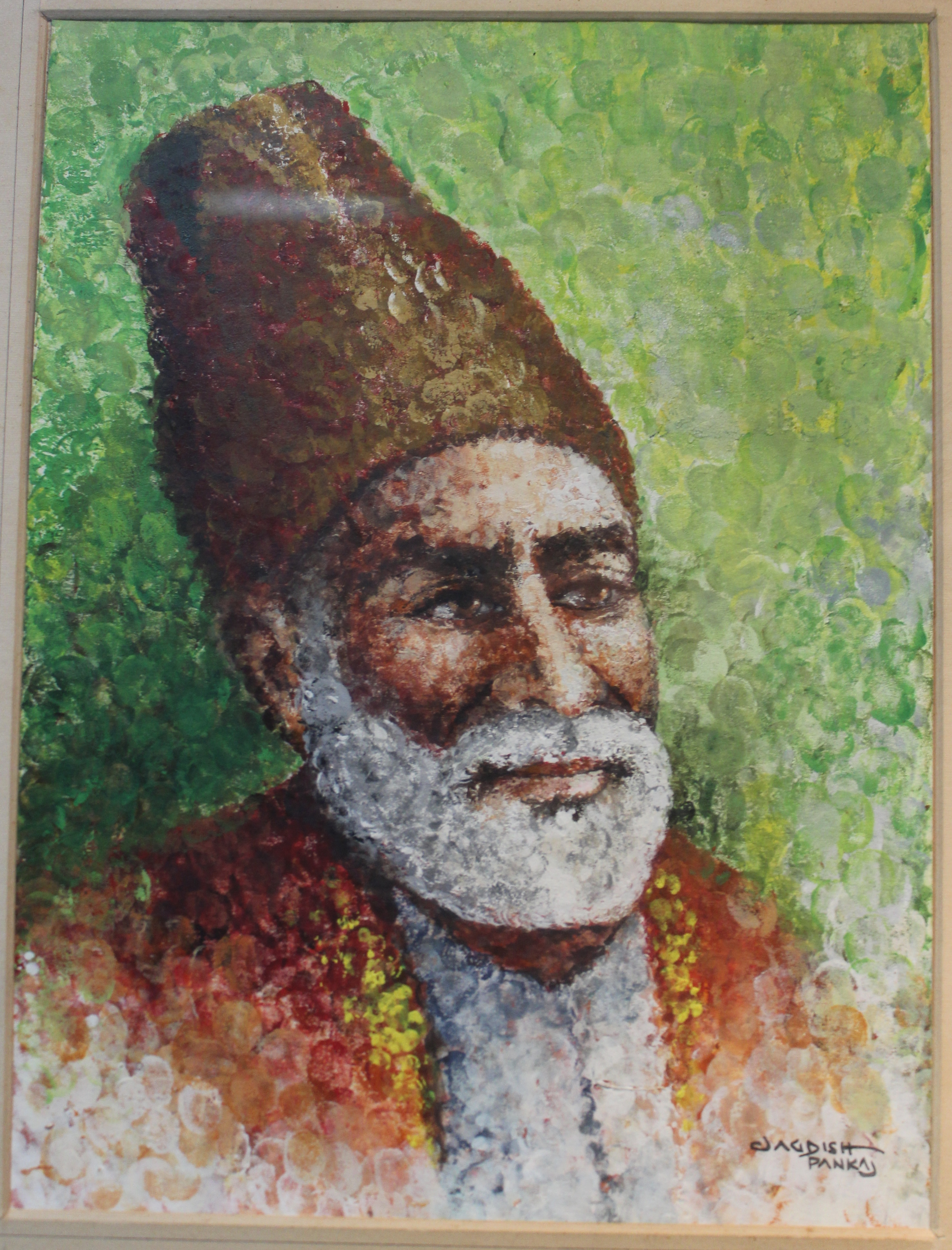 Painting of Mirza Ghalib done by Jagdish Pankaj done using fingers instead of brush